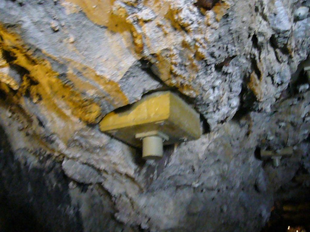 Bolt in the ceiling of Saint-Léonard underground lake